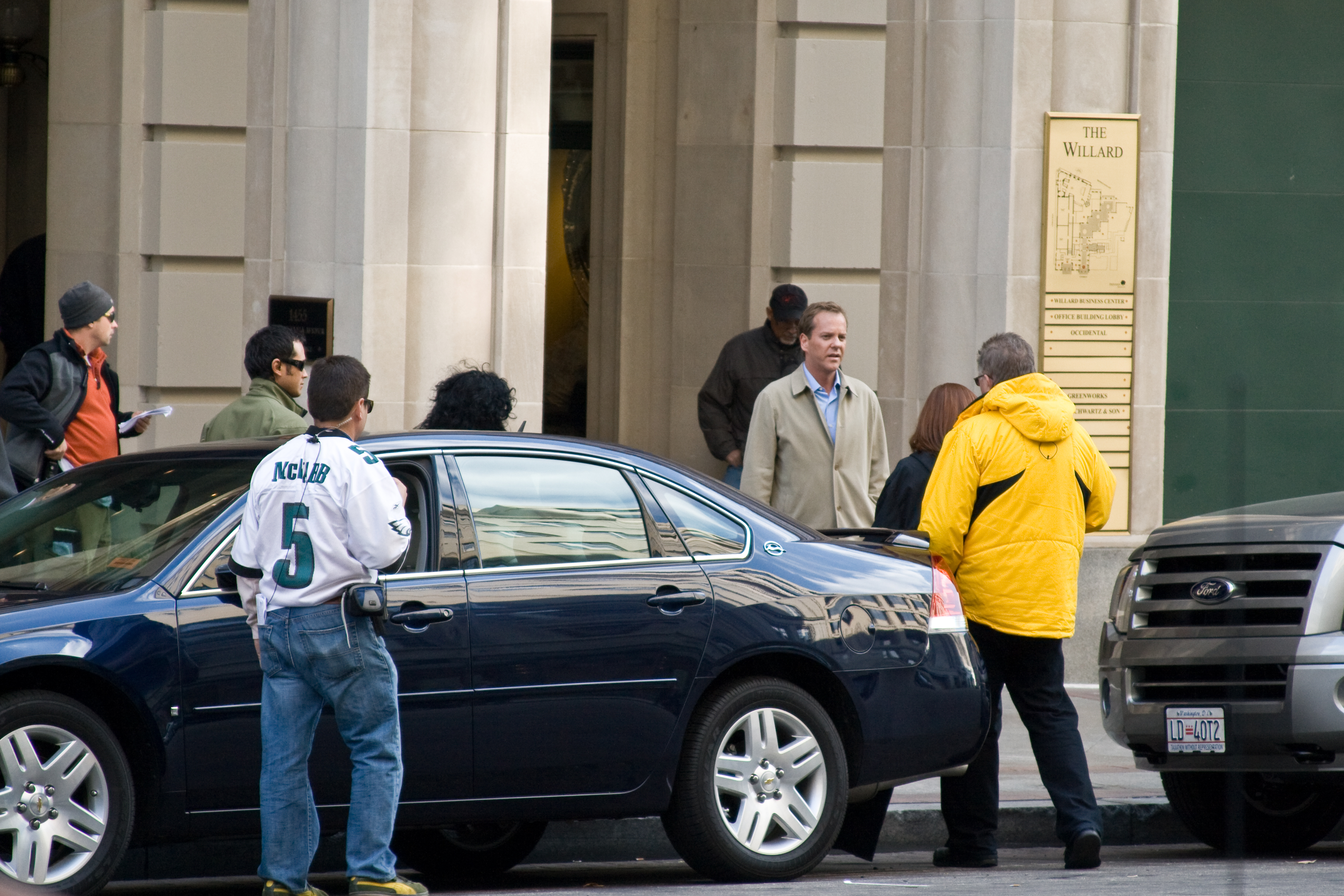 Keith Sutherland plays Jack Bauer on the set of the tv show 24 in downtown Washington, DC.